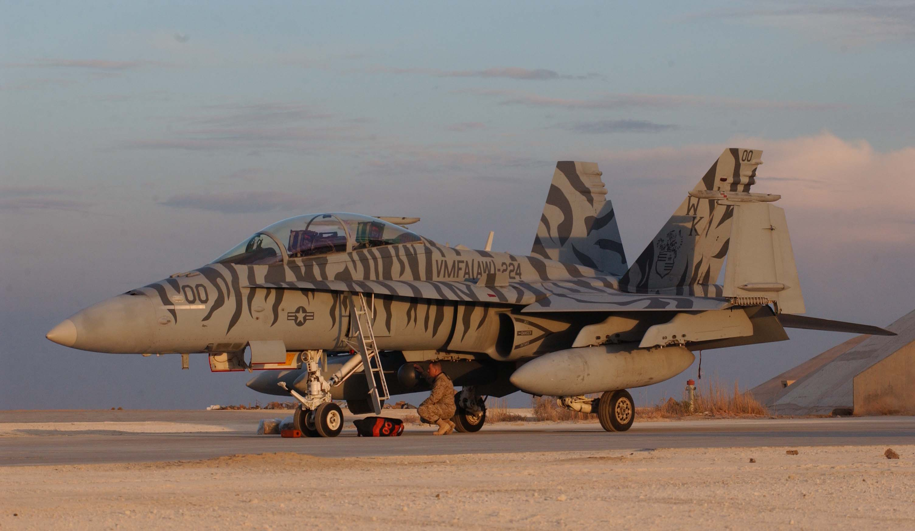 Illuminated by the setting sun after landing at Al Asad, Iraq, a ‘tiger-striped’ U.S. Marine Corps McDonnell Douglas F/A-18D Hornet from with Marine all-weather fighter-bomber squadron VMFA(AW)-224 Fighting Bengals rests in the new hangar area prepared for the squadron by 3rd Marine Aircraft Wing Marines, on 15 January 2005.